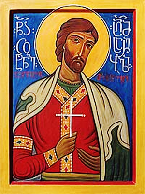 Prince Tsotne Dadiani (Saint)